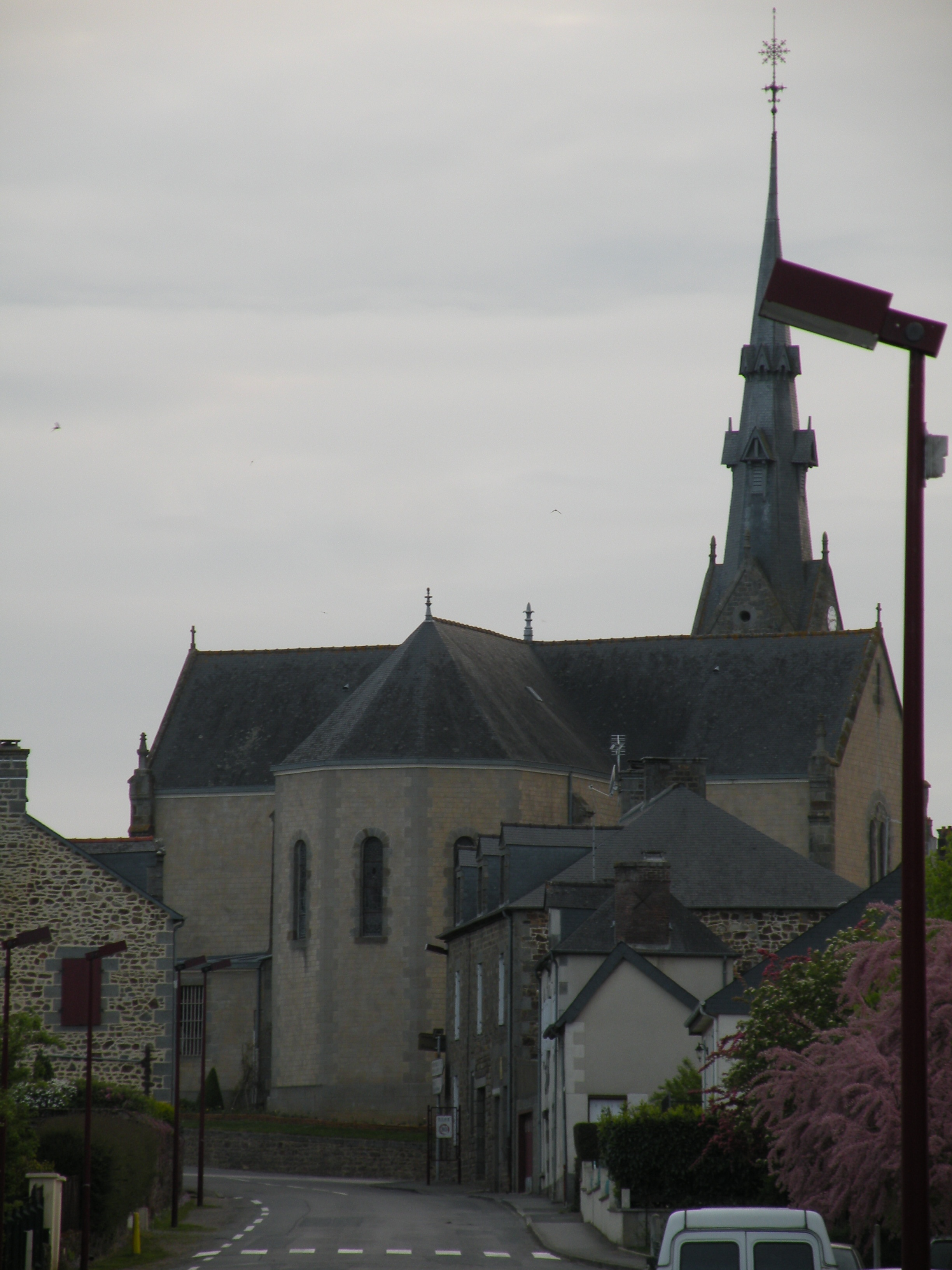 Saint-Martin church of Guipel.